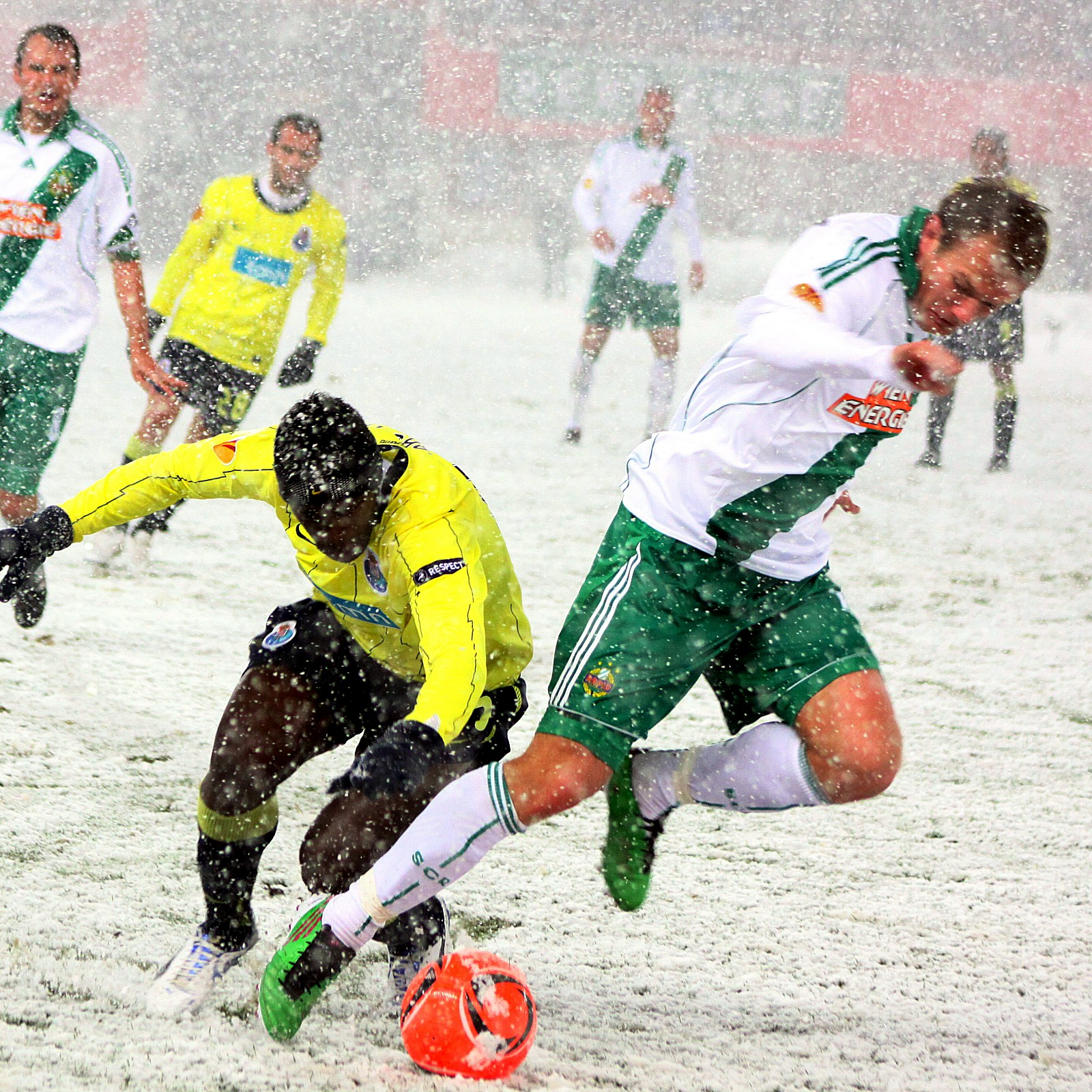 2010–11 UEFA Europa League - SK Rapid Wien vs. F.C. Porto 1:3 Ernst-Happel-Stadion (Vienna) – Mario Sonnleitner (right) followed by Silvestre Varela.